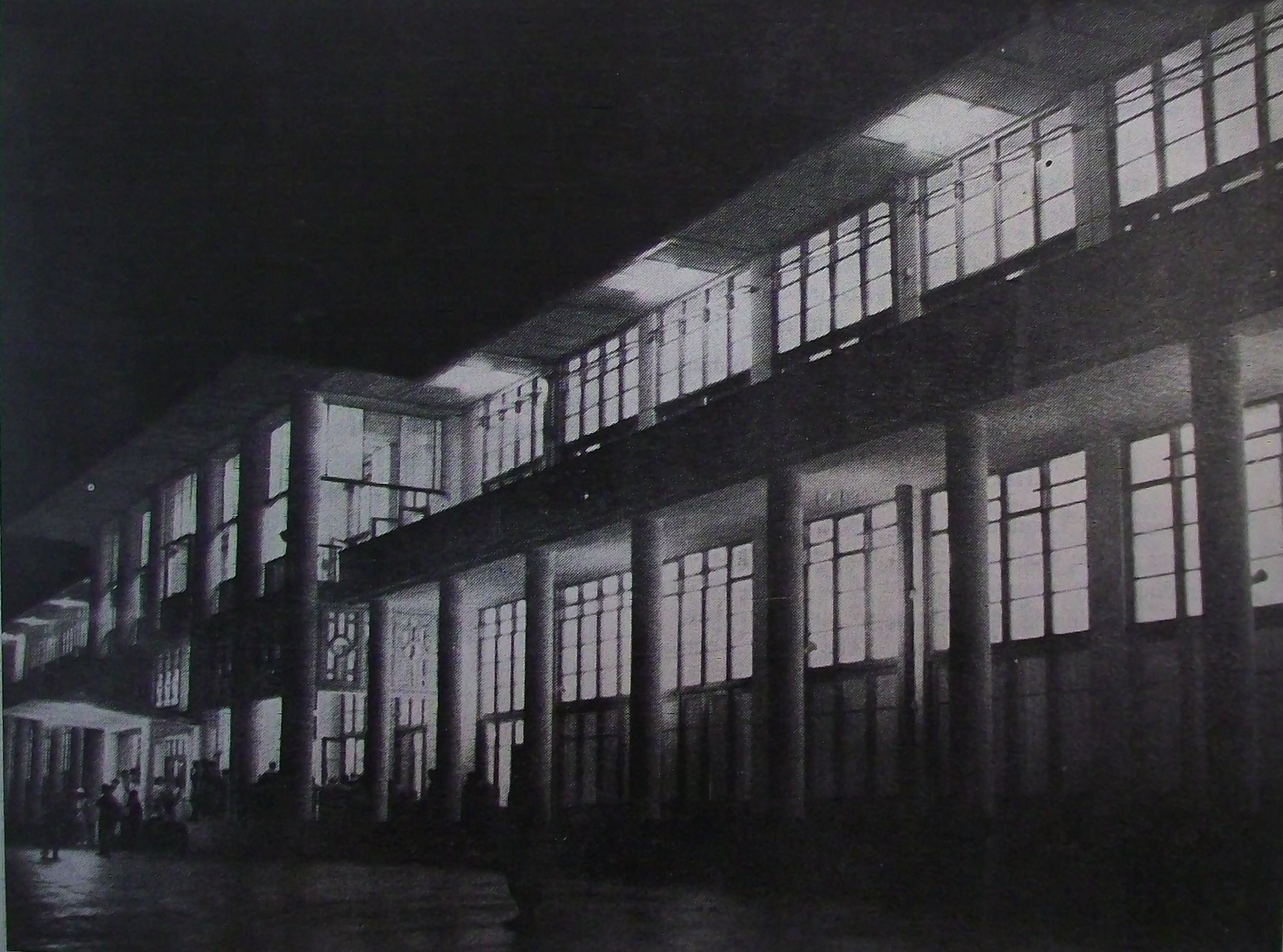 Dwi-warna Conference building Bandung Conference.